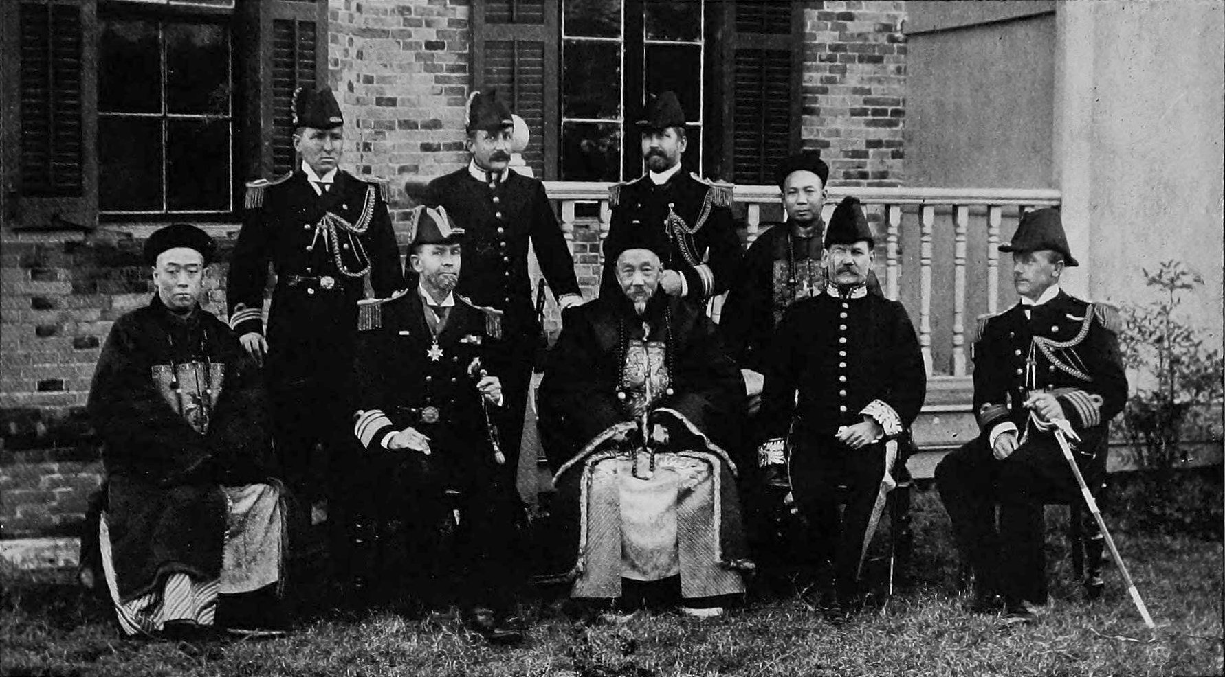 Li Hung-Chang with officers, including Admiral Sir Edward Seymour, Sir Pelham Warren, and Captain (later Admiral) John Jellicoe (at far right).